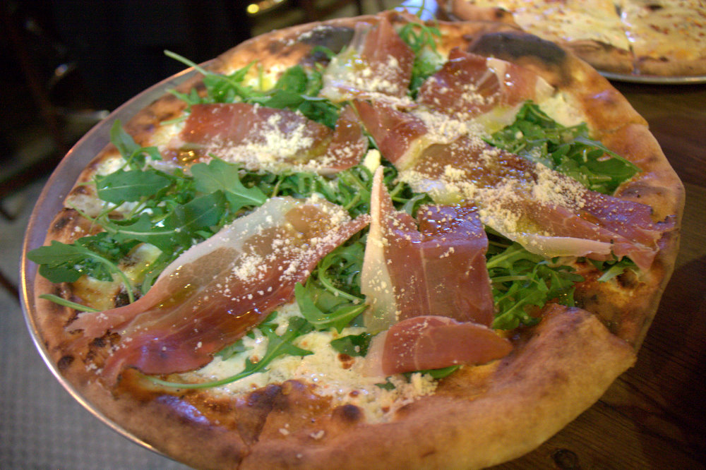 Toby's public house speck, arugula, mascarpone pizza.